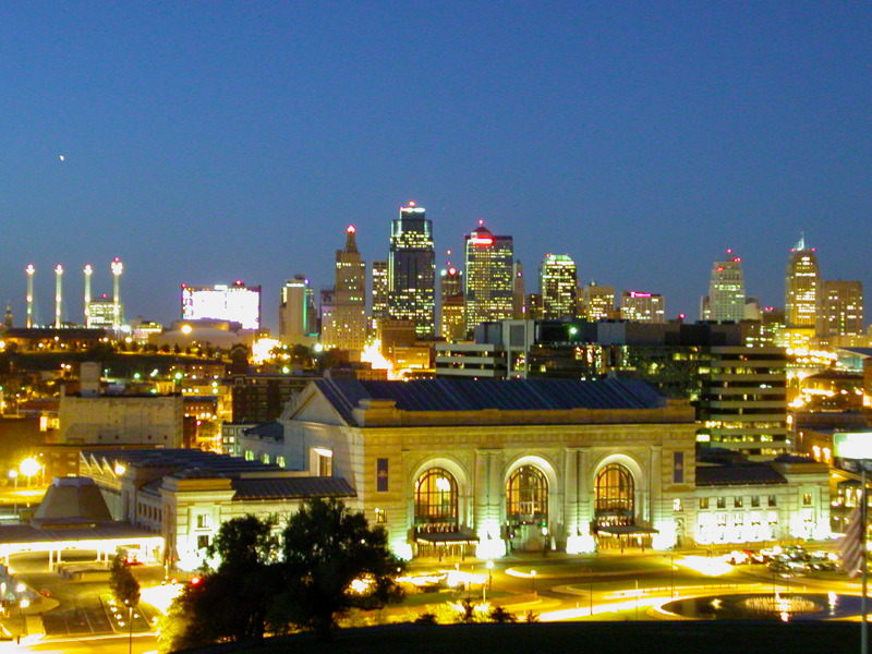 Looking north from the Liberty Memorial towards Union Station and Downtown Kansas City.Downtown at Twighlight